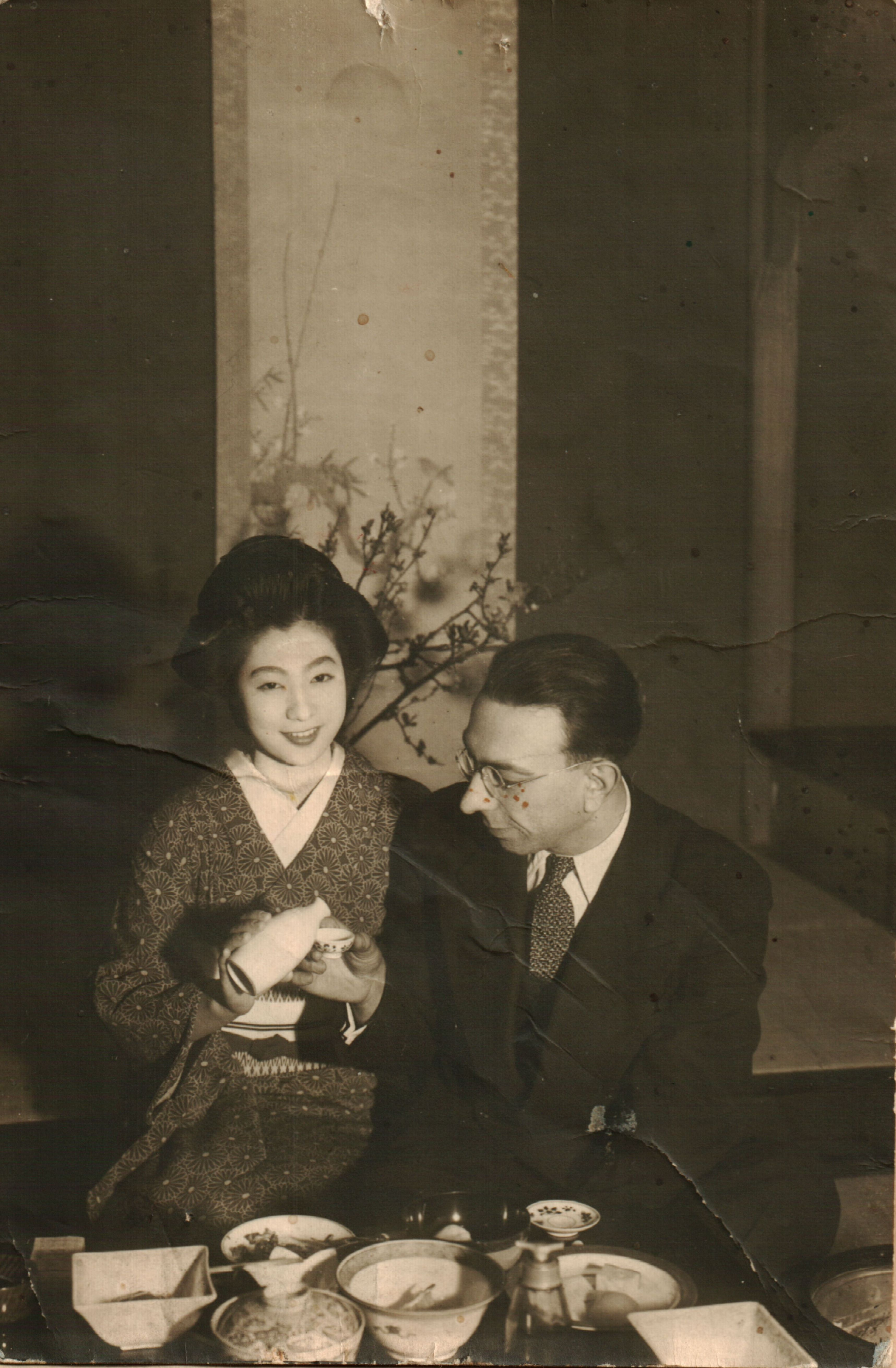 Bulgarian writer Svetoslav Minkov in Japanese restaurant